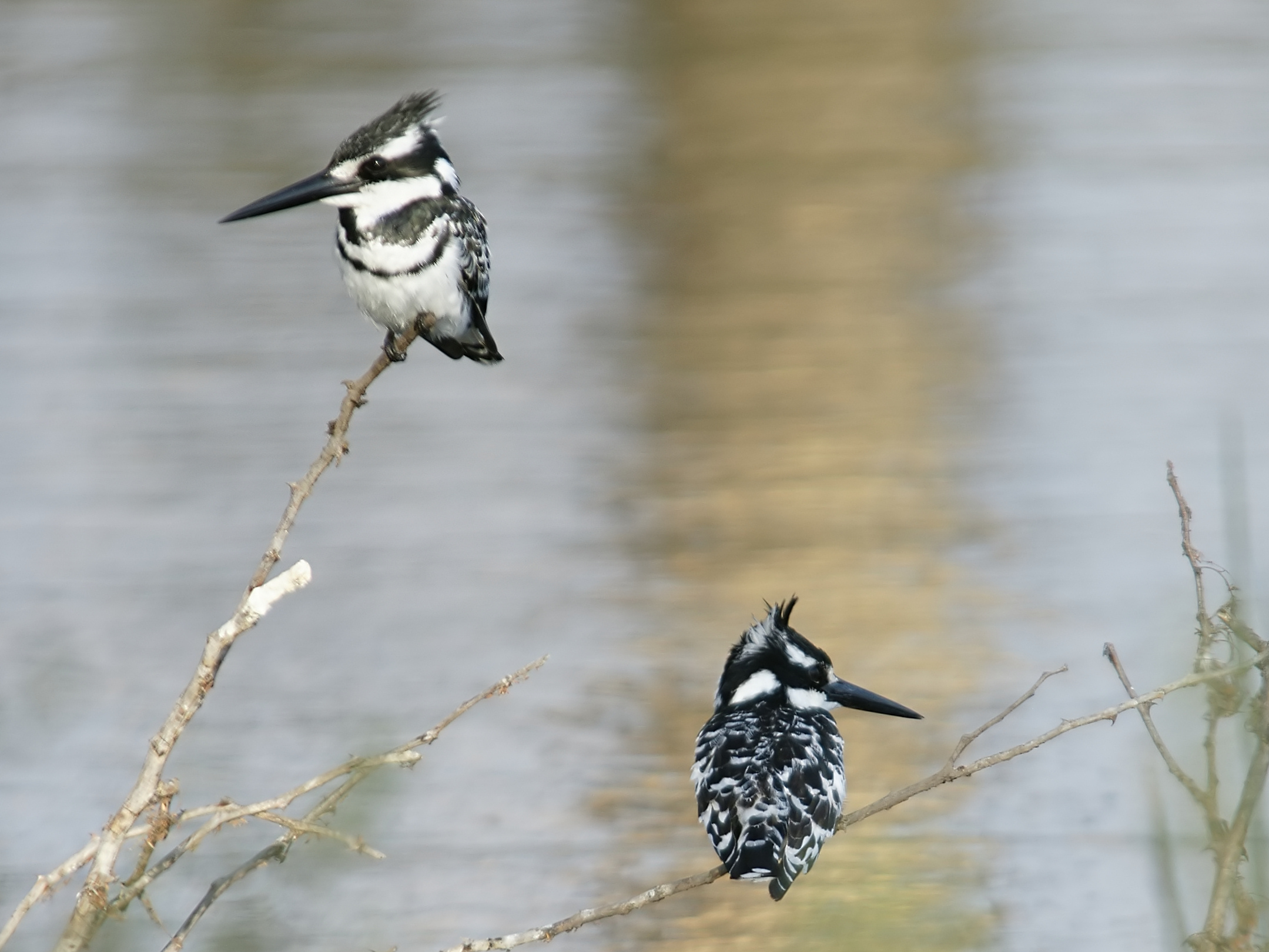 Pied Kingfisher close to the Kafue river near Kafue, Zambia